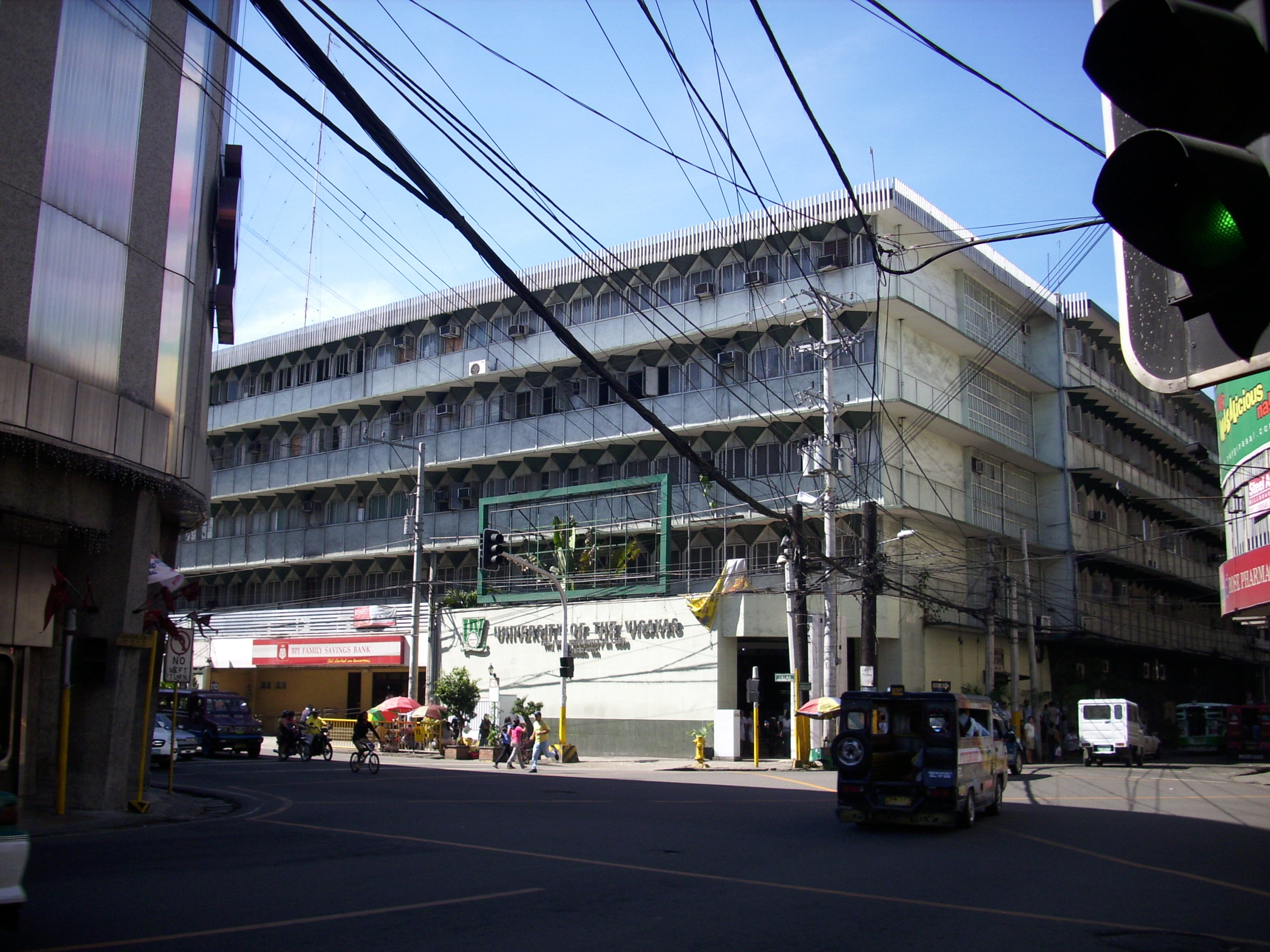 University Of The Visayas (main campus), Colon Street, Cebu City